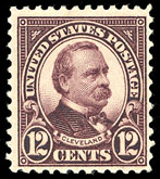 1923 stamp of Grover Cleveland